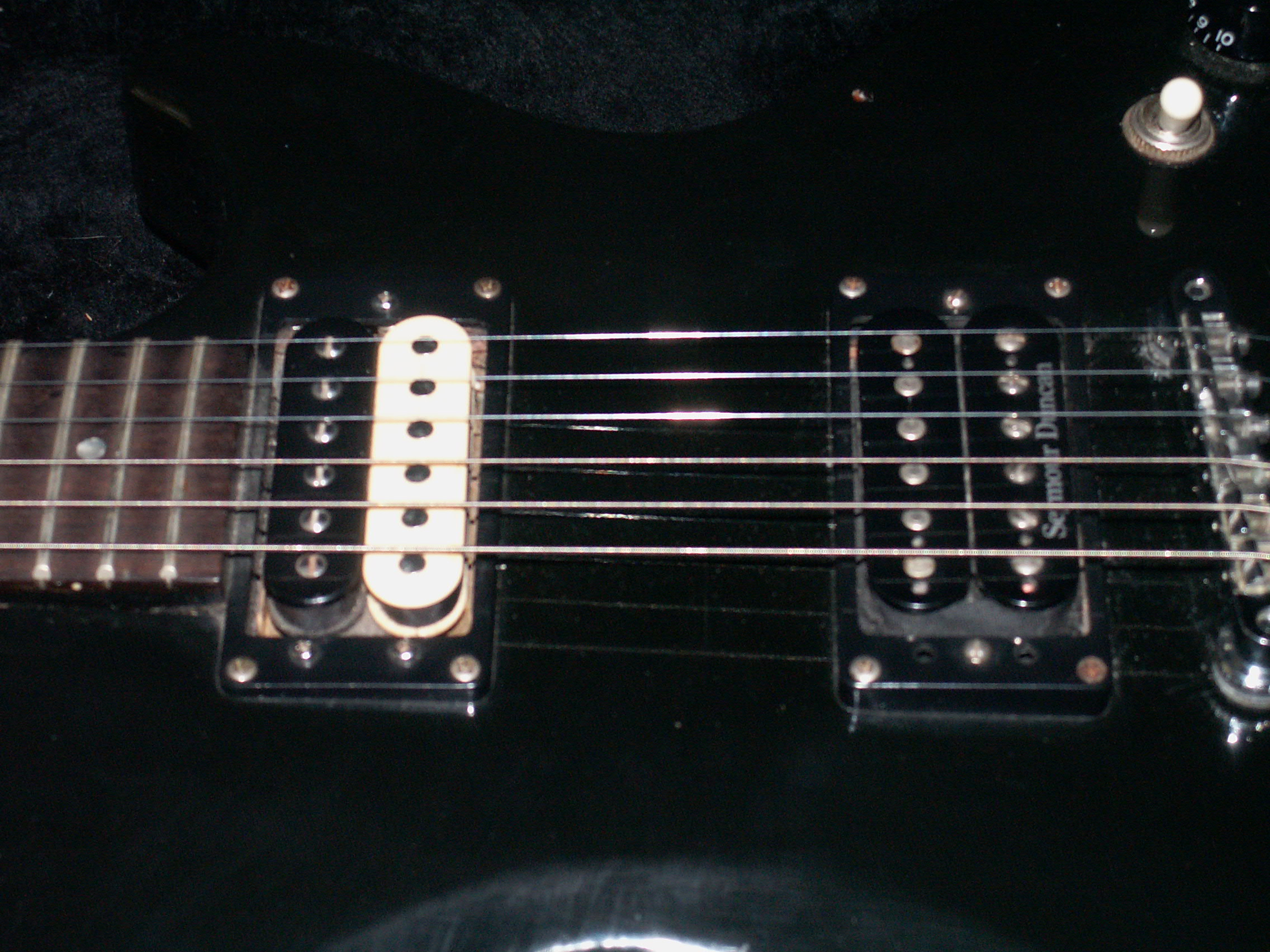 The humbucker pick-ups on a Gibson Invader guitar.